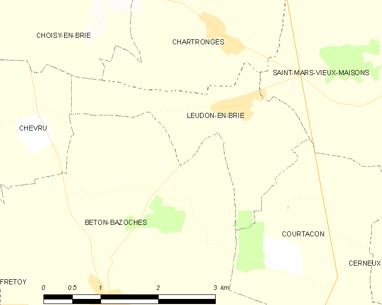 Map of French municipality Leudon-en-Brie